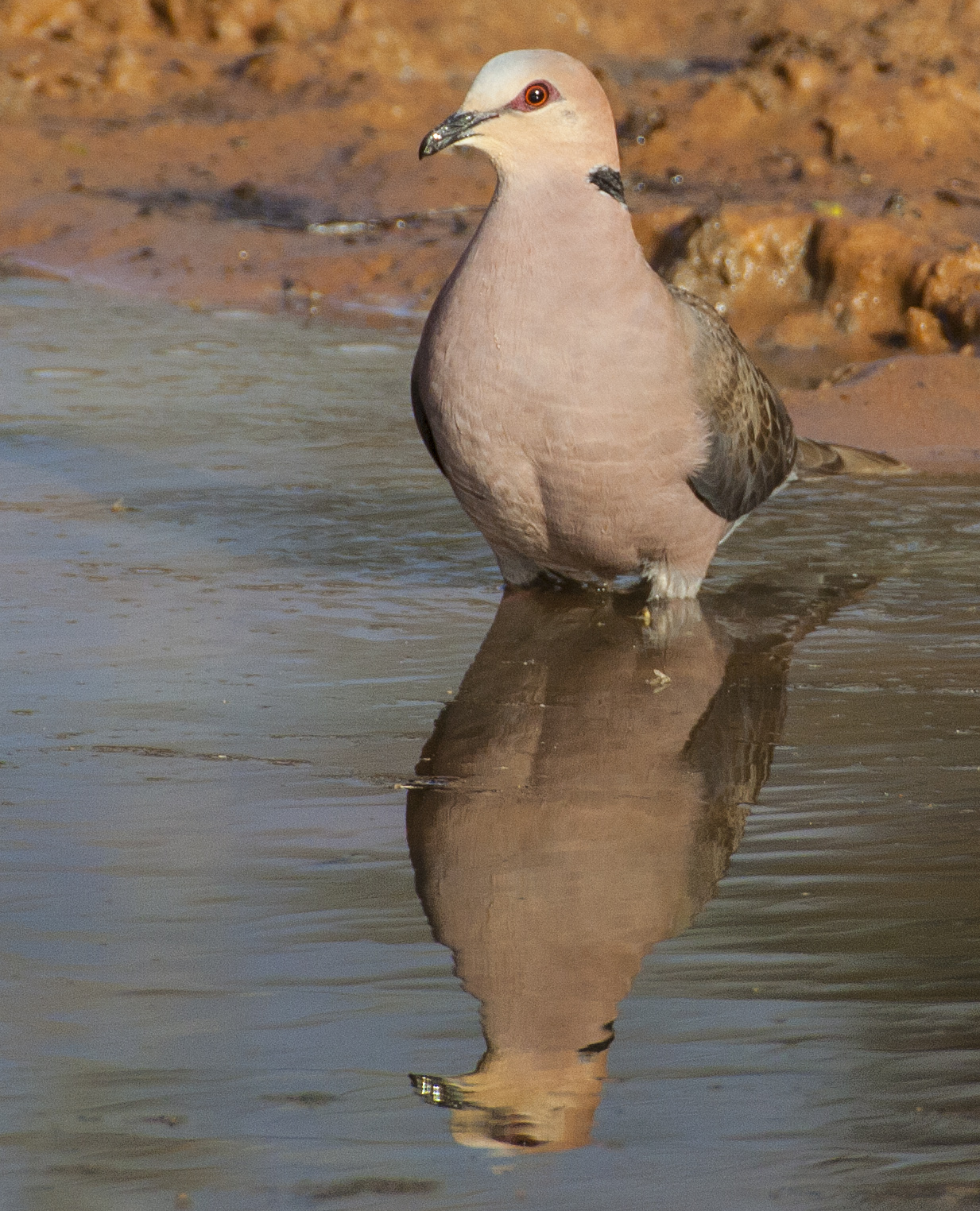 The Red-eyed Dove (Streptopelia semitorquata) is a pigeon which is a widespread resident breeding bird in Africa south of the Sahara.